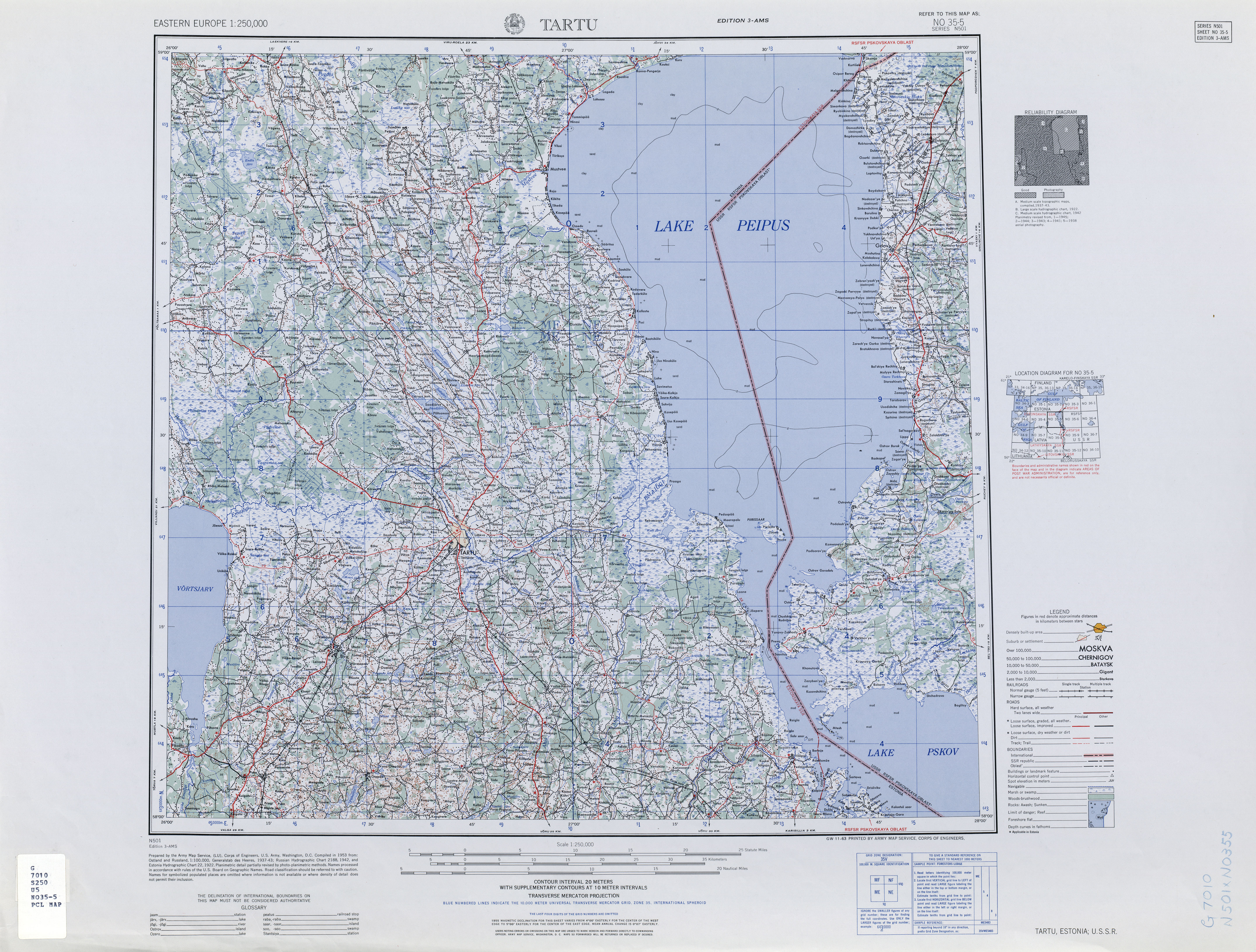 List from Eastern Europe AMS Topographic Maps. Series N501, U.S. Army Map Service, 1954